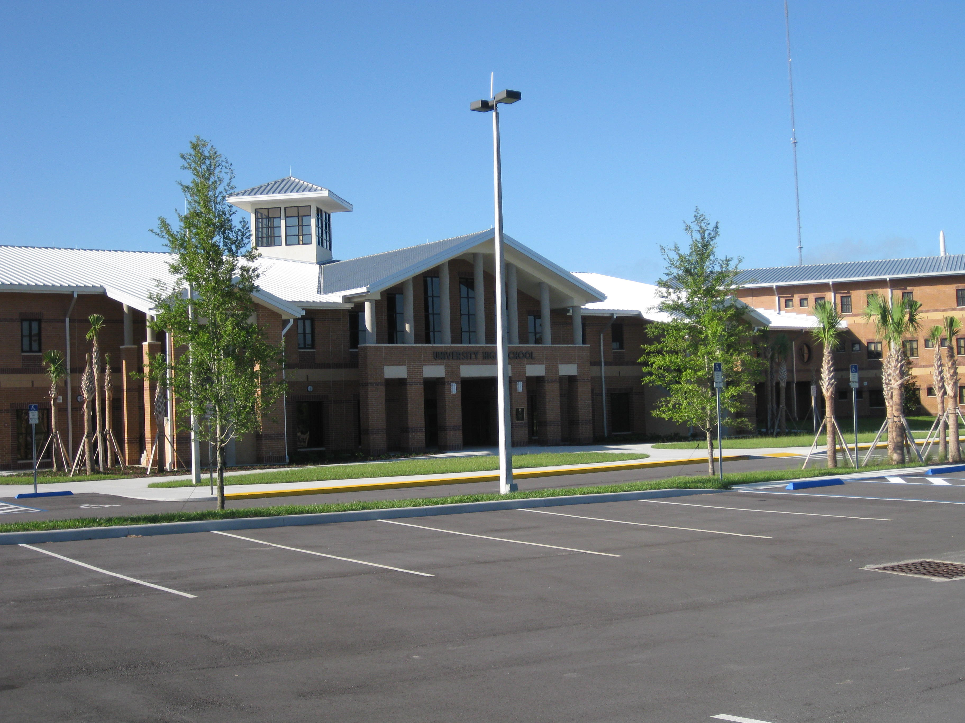 picture of orange city university high school